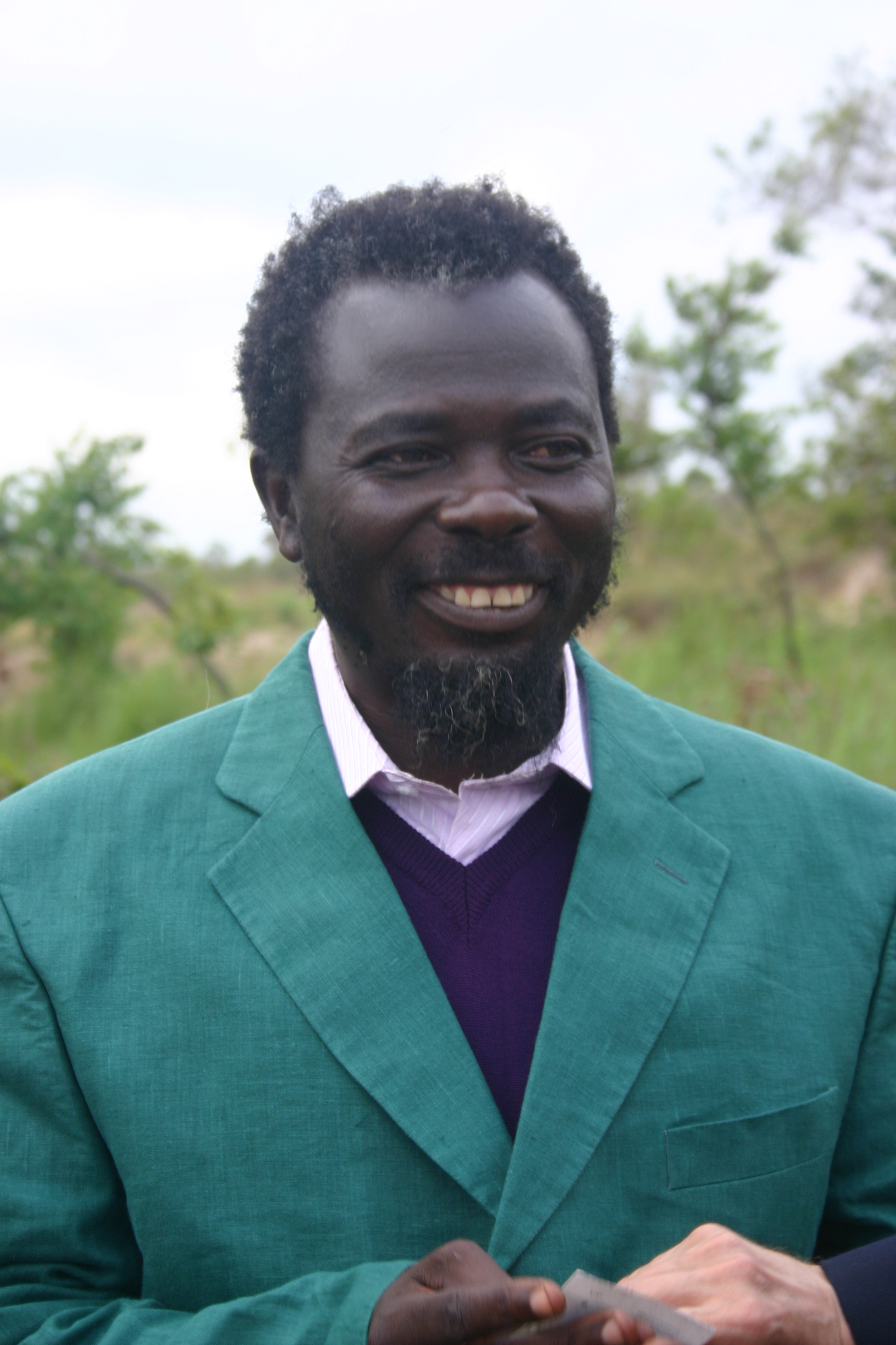 Frederick Bintsamou, alias Pastor Ntumi, leader of the Ninja rebels in the Pool region of the Republic of Congo